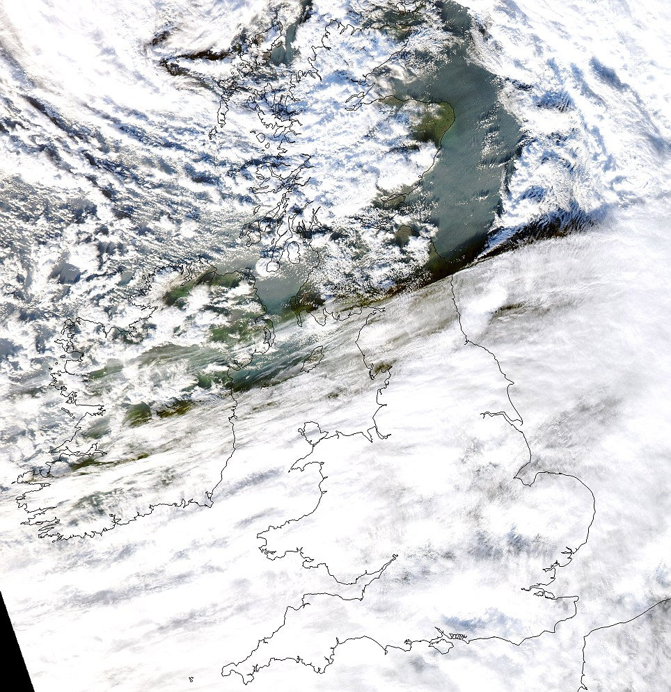 Satellite image of Windstorm Friedhelm, colloquially known as "Hurricane Bawbag" affecting the British Isles on 8 December 2011.